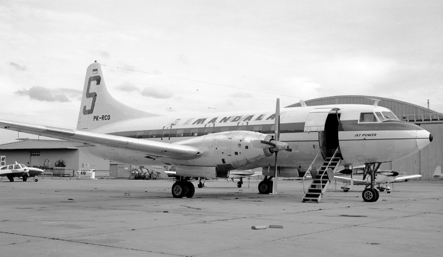 PK-RCO at Oakland in November 1970.